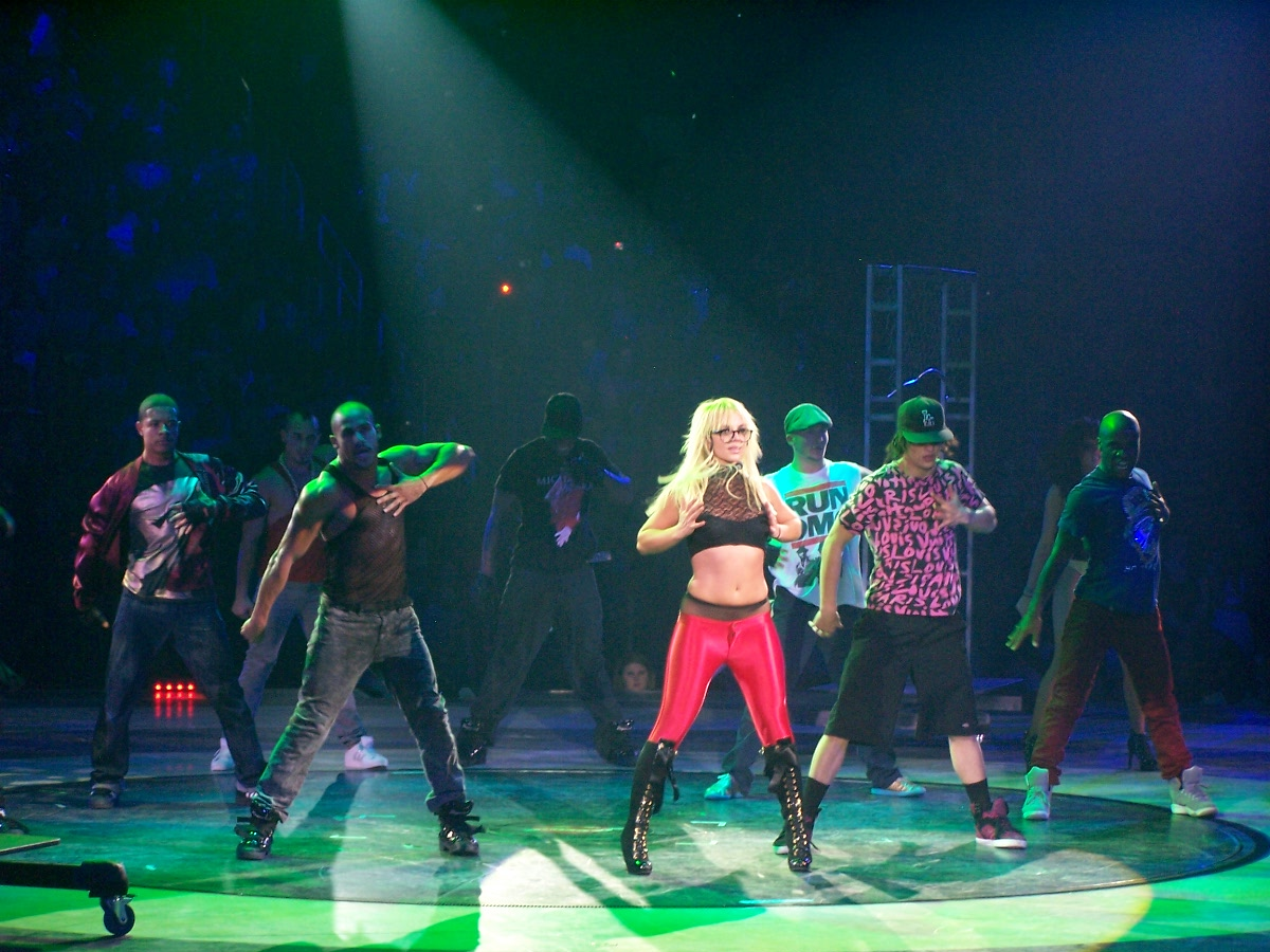 Britney Spears, Greensboro, NC 9/5/09